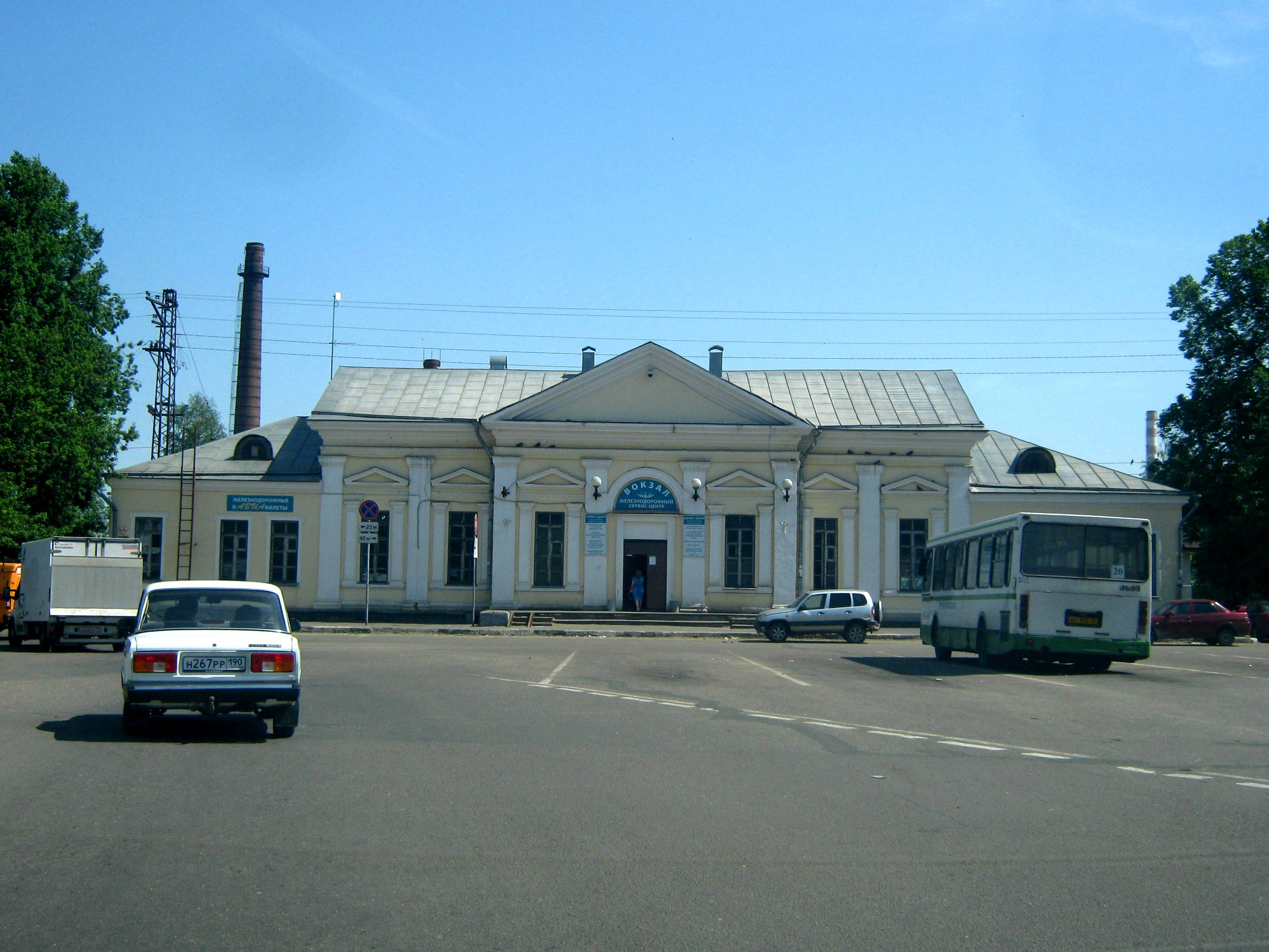 Железнодорожный вокзал (Электросталь)